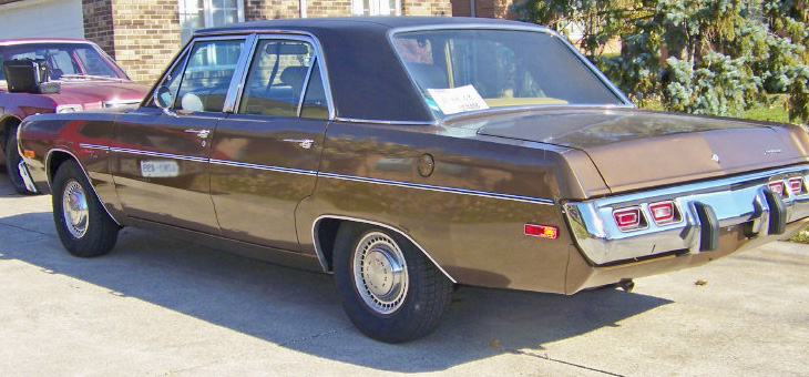 1973 Dodge Dart Custom sedan, rear 3/4 view